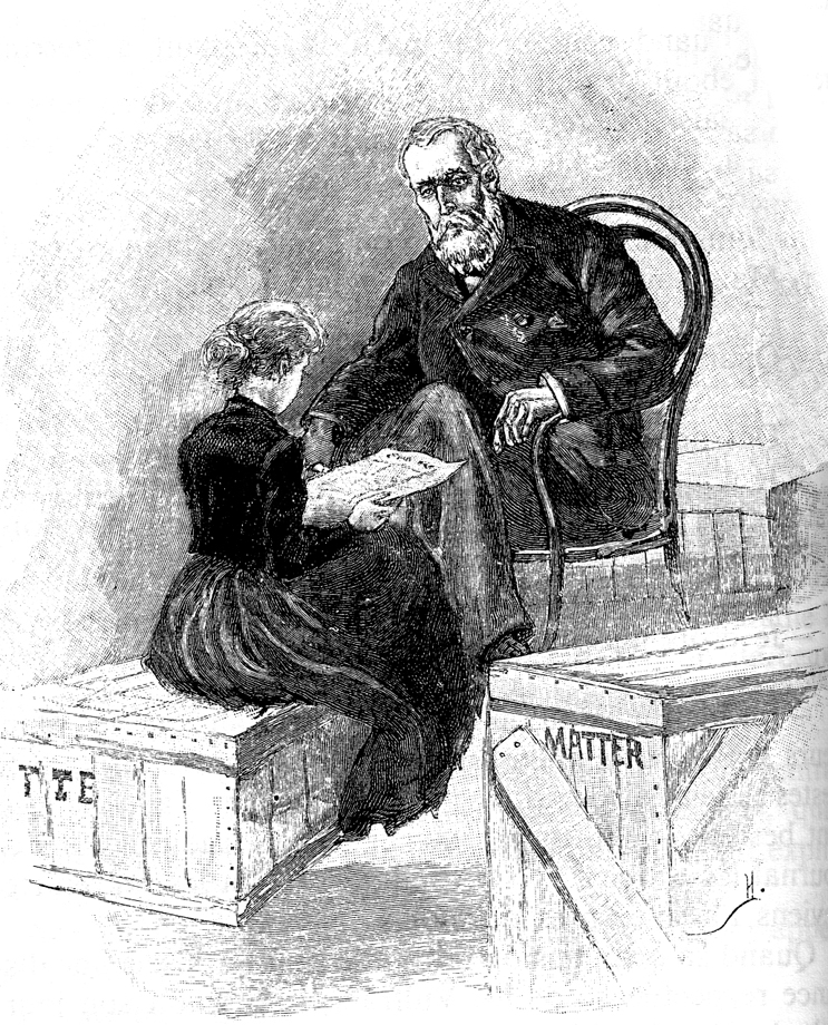 Title page from Nobody's Girl (1878) by Hector Malot (1830-1907)